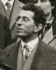 Fritz London, Munich 1928 at the Bunsen congress.